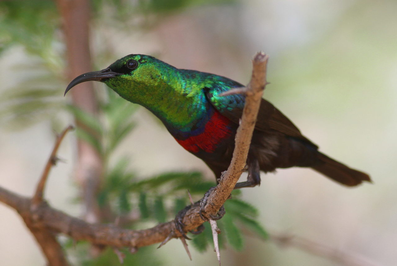 Marico sunbird, Cinnyris mariquensis (male) at Marakele National Park, Limpopo, South Africa